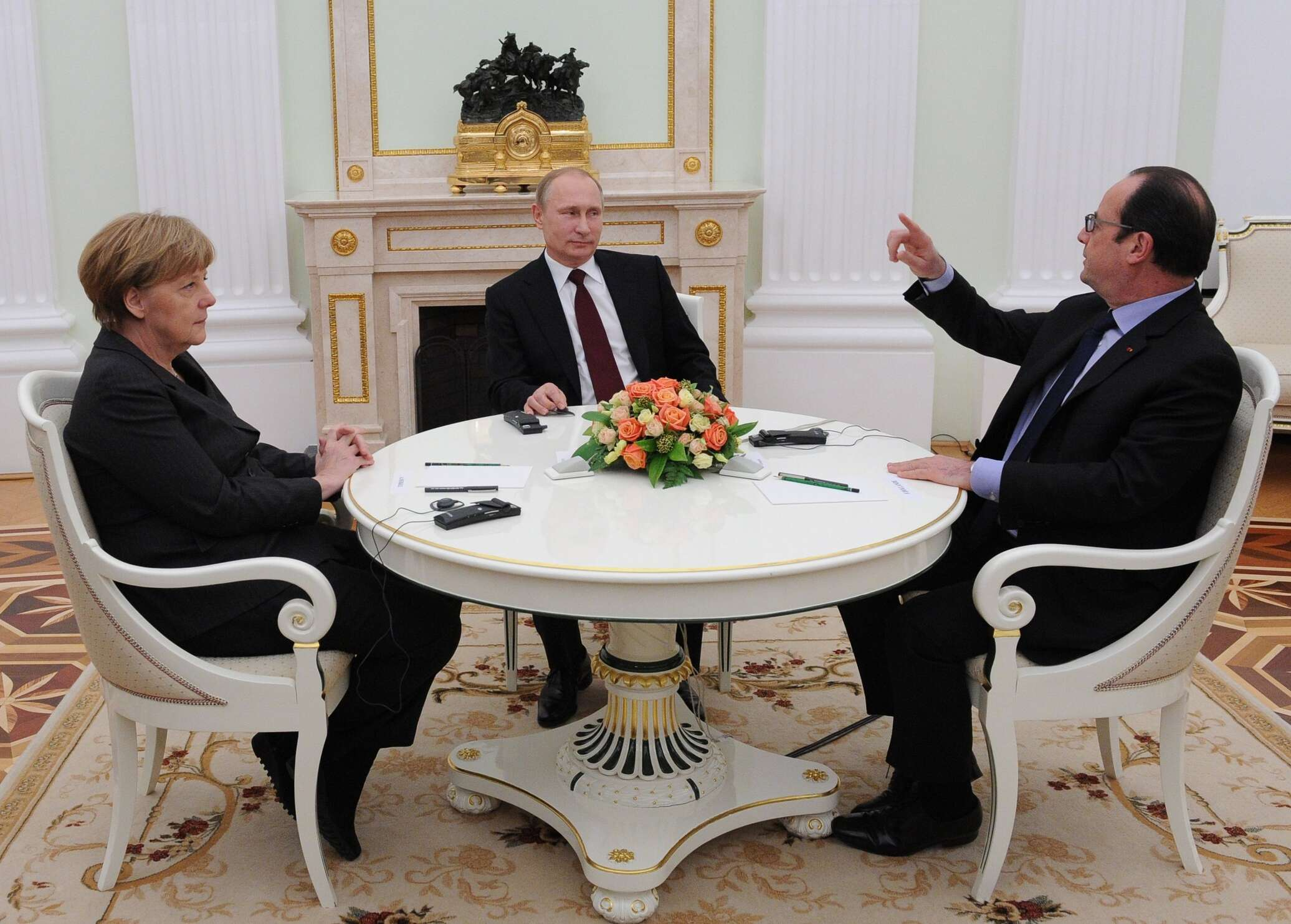 Federal Chancellor of Germany Angela Merkel, President of Russia Vladimir Putin, President of France François Hollande at the Kremlin to discuss solutions to the situation in southeast Ukraine. (2015-02-06)